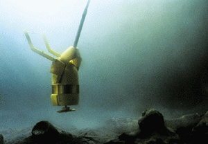 AN/SQQ-30 Minehunting Sonar System operation